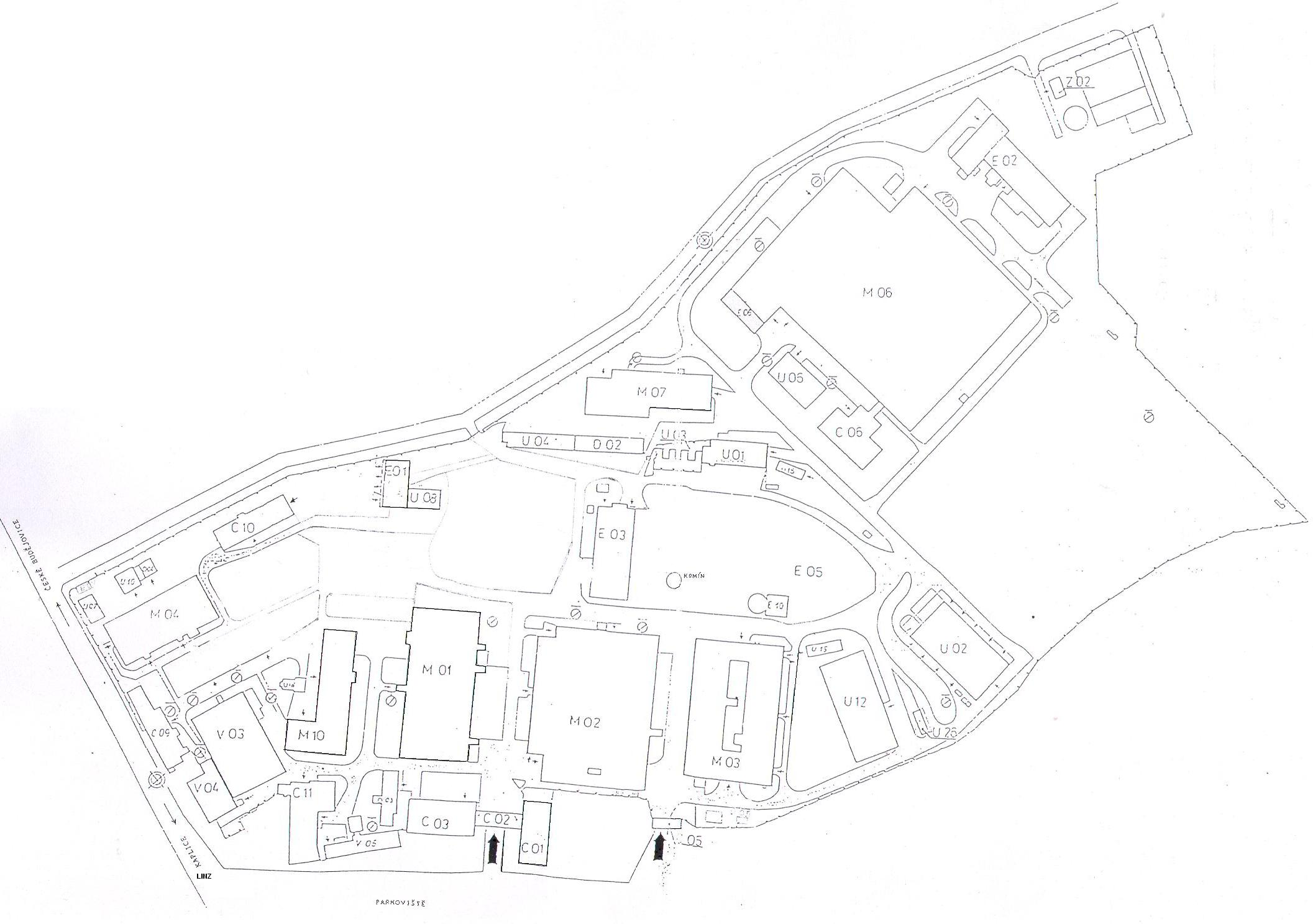 Jihostroj area in 2010